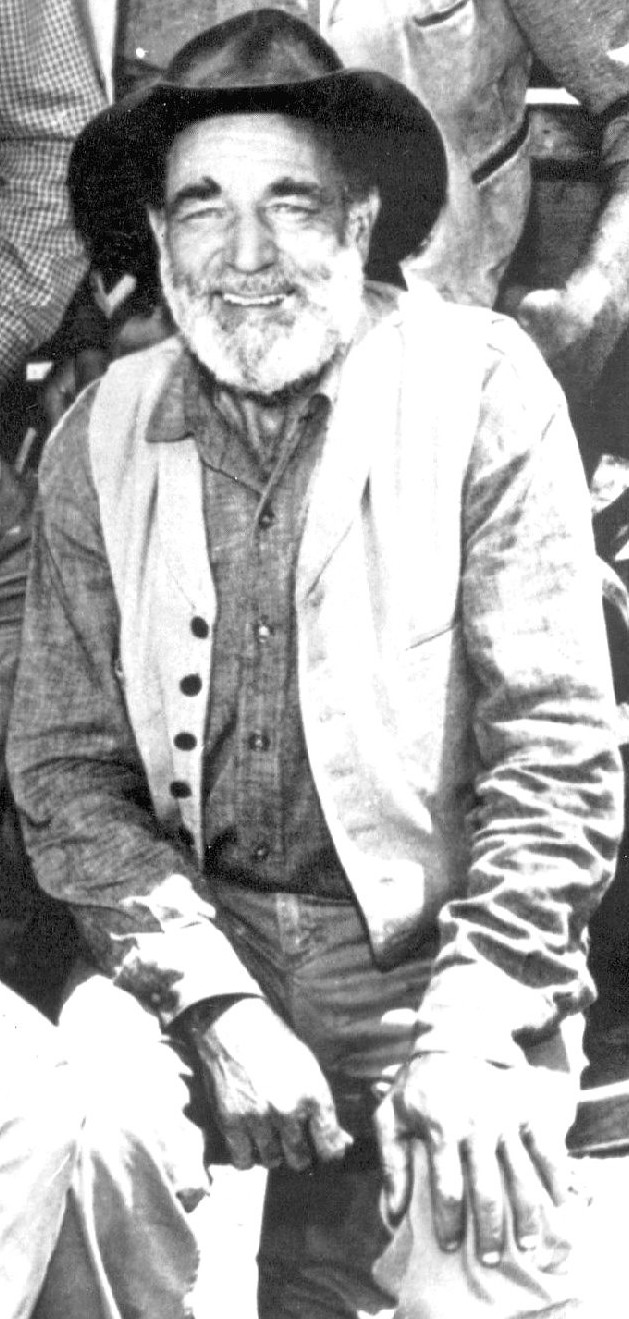 Photo of the main cast of the western television series Wagon Train. Seated from left: Scott Miller, Frank McGrath. Standing from left: John McIntyre, Terry Wilson. The item has no copyright markings on it as can be seen in the links above.